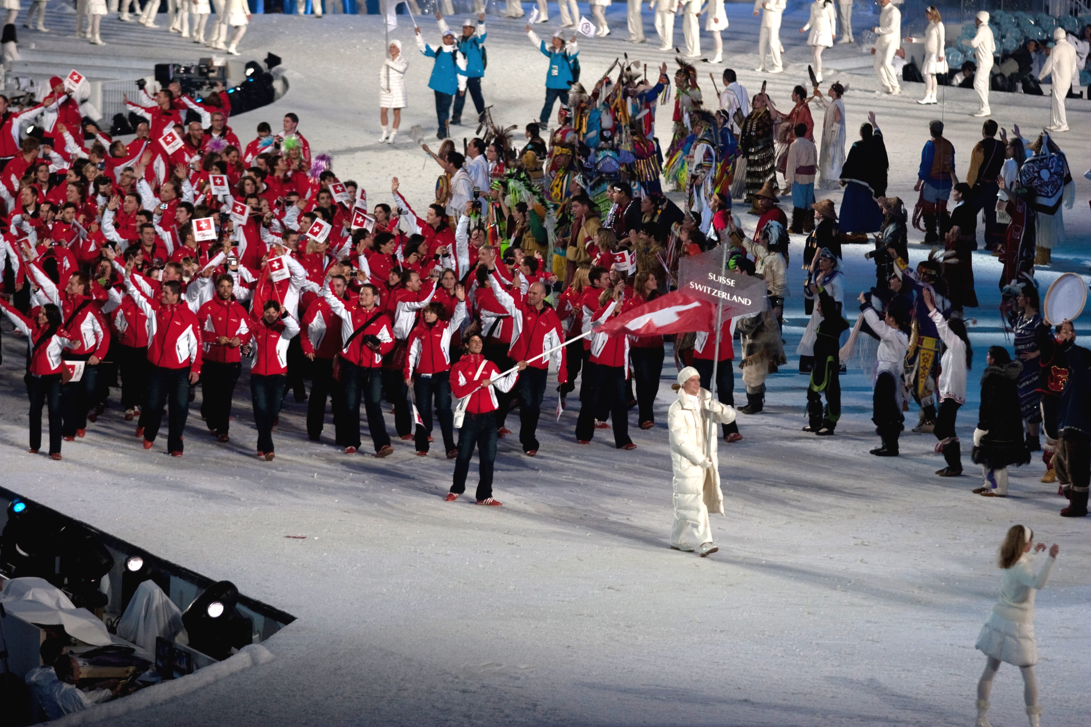 The athletes from Switzerland entering the stadium at the opening ceremonies of the 2010 Winter Olympics.